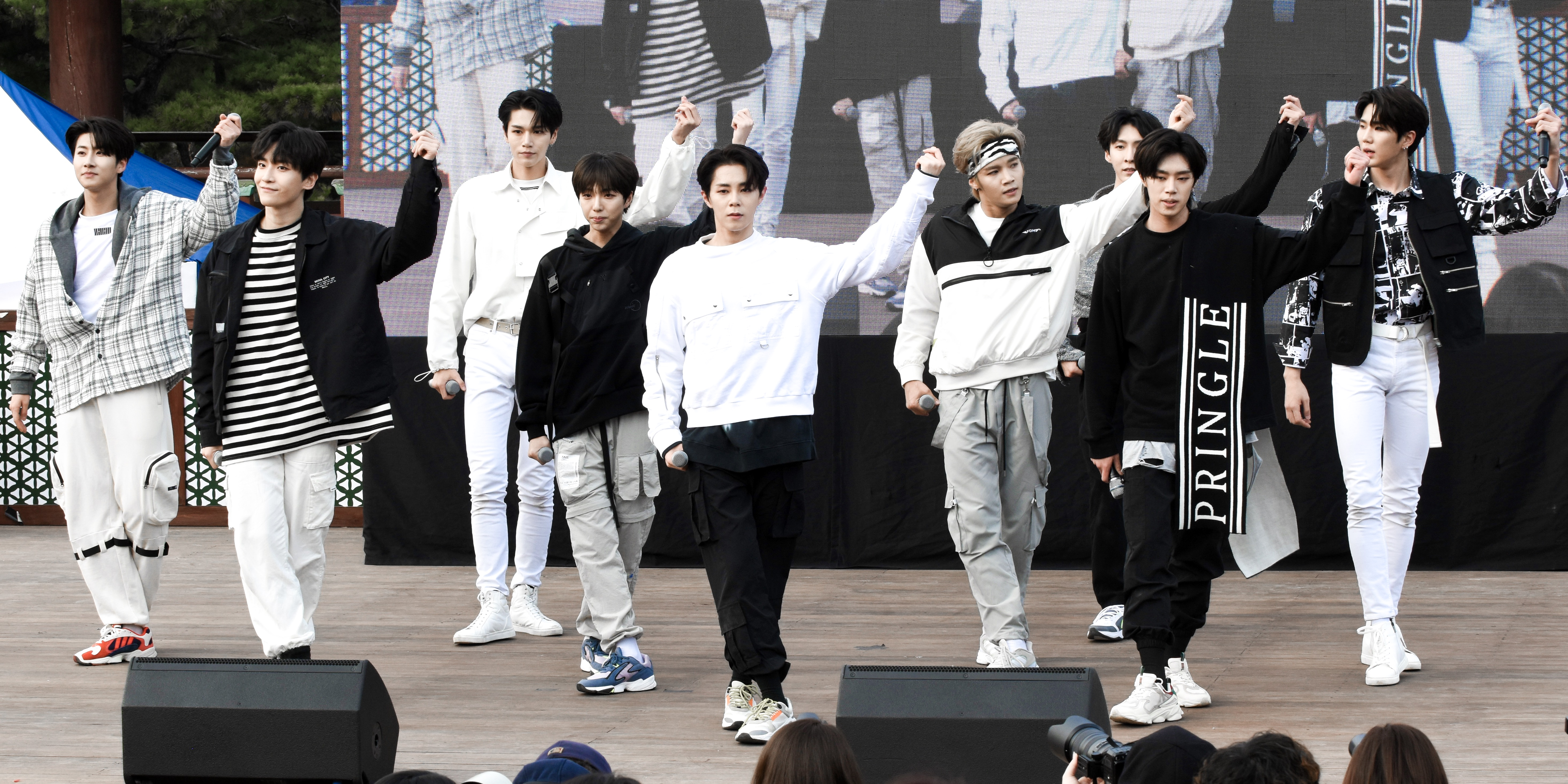 GreatGuys at the 4th Happy Festival of Urban Kids on November 10, 2019.